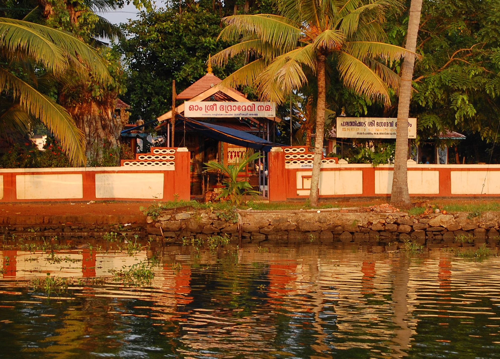 Palathikodu Sri badra devi temple, Alappuzha, Kerala.